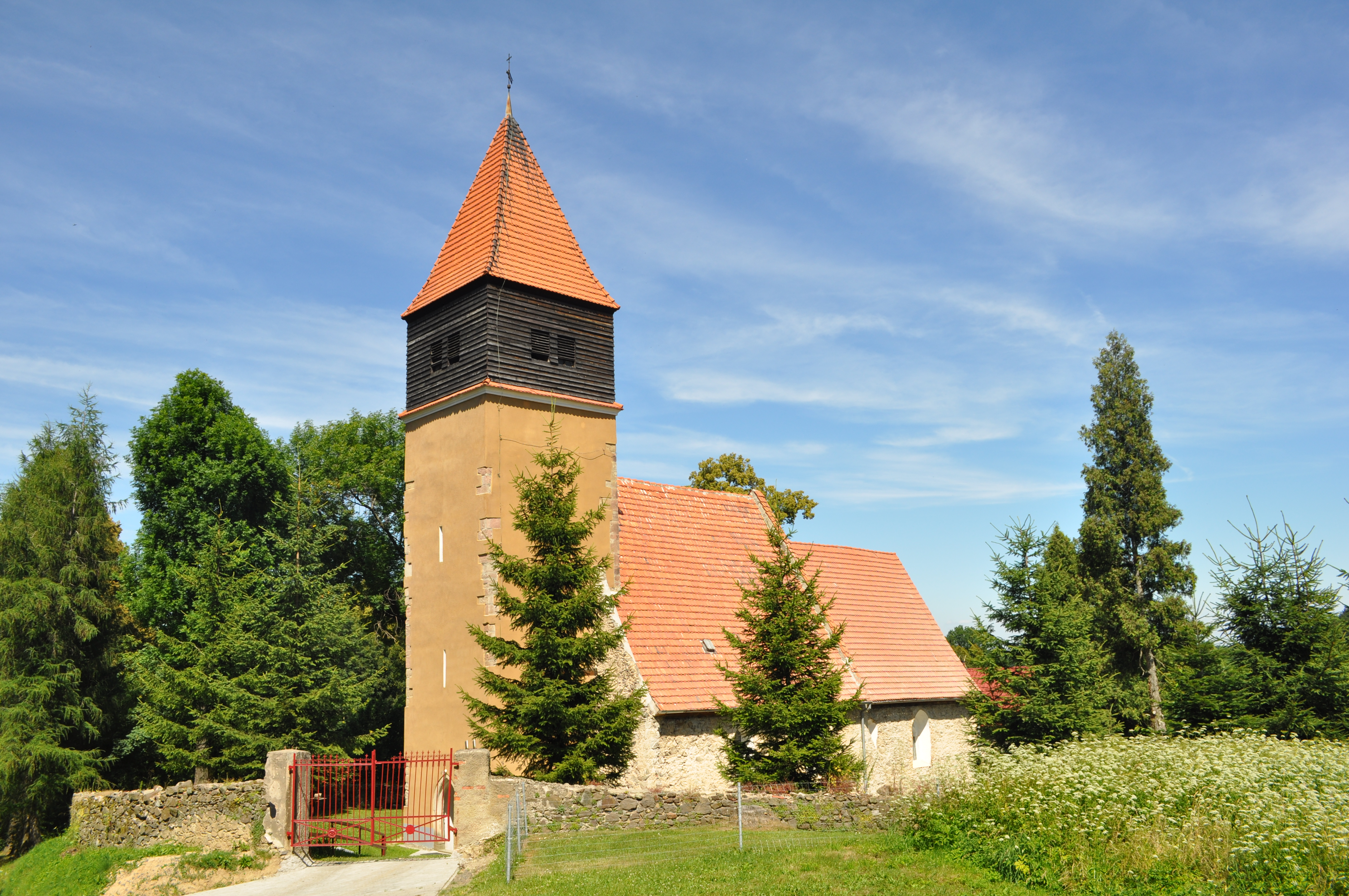 Church of the Assumption in Myślinów, Poland